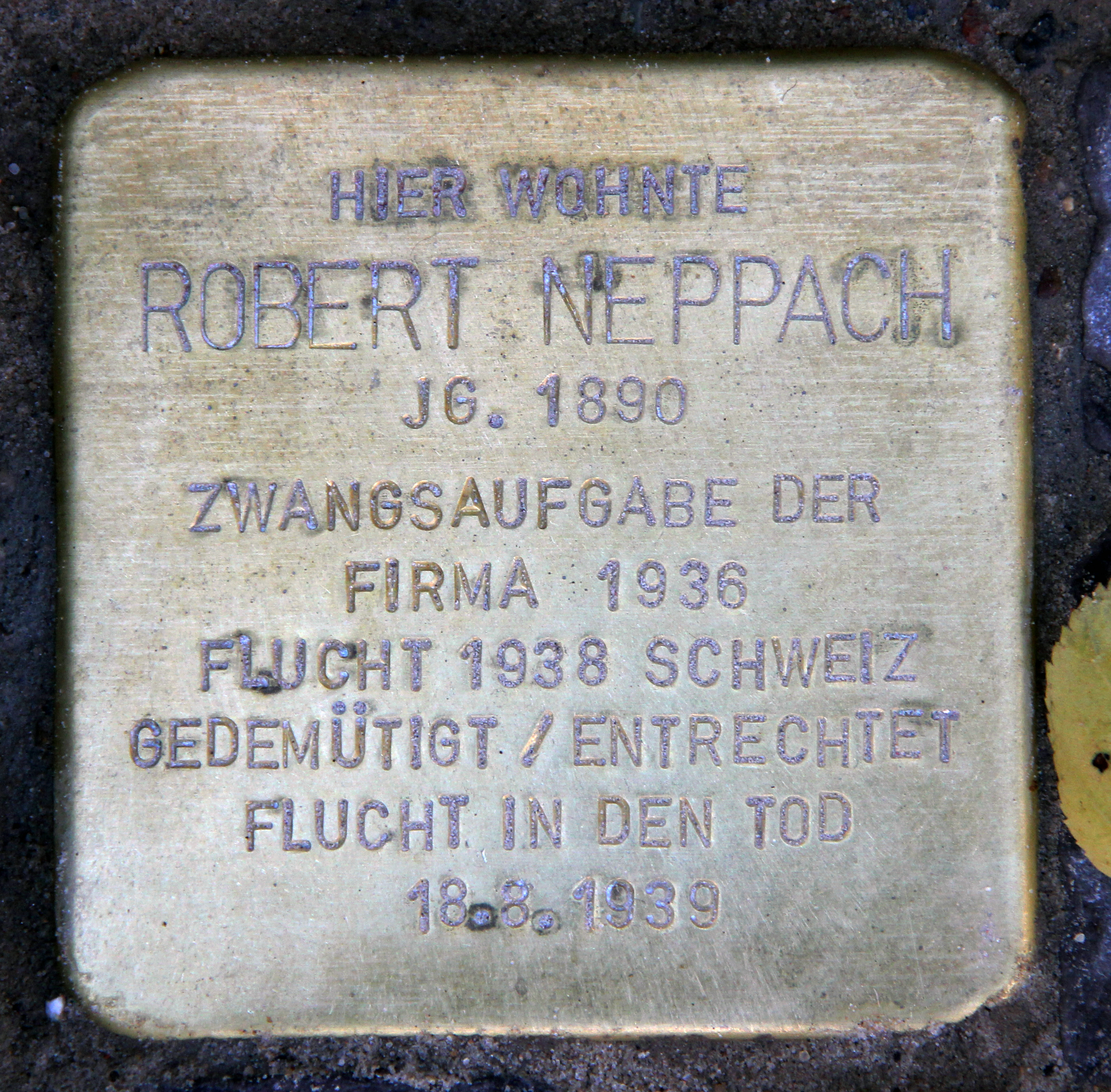 "Stolperstein" (stumbling block), Robert Neppach, Nachodstraße 22, Berlin-Wilmersdorf, Germany